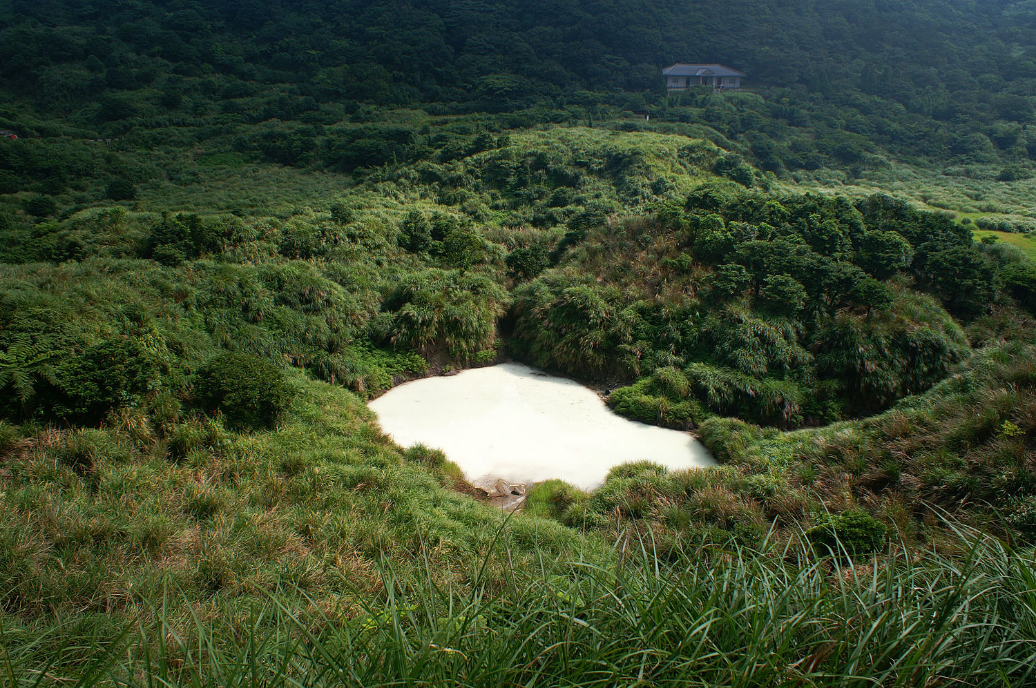 Milk Lake, Yangmingshan National Park, Taiwan 陽明山國家公園冷水坑牛奶湖